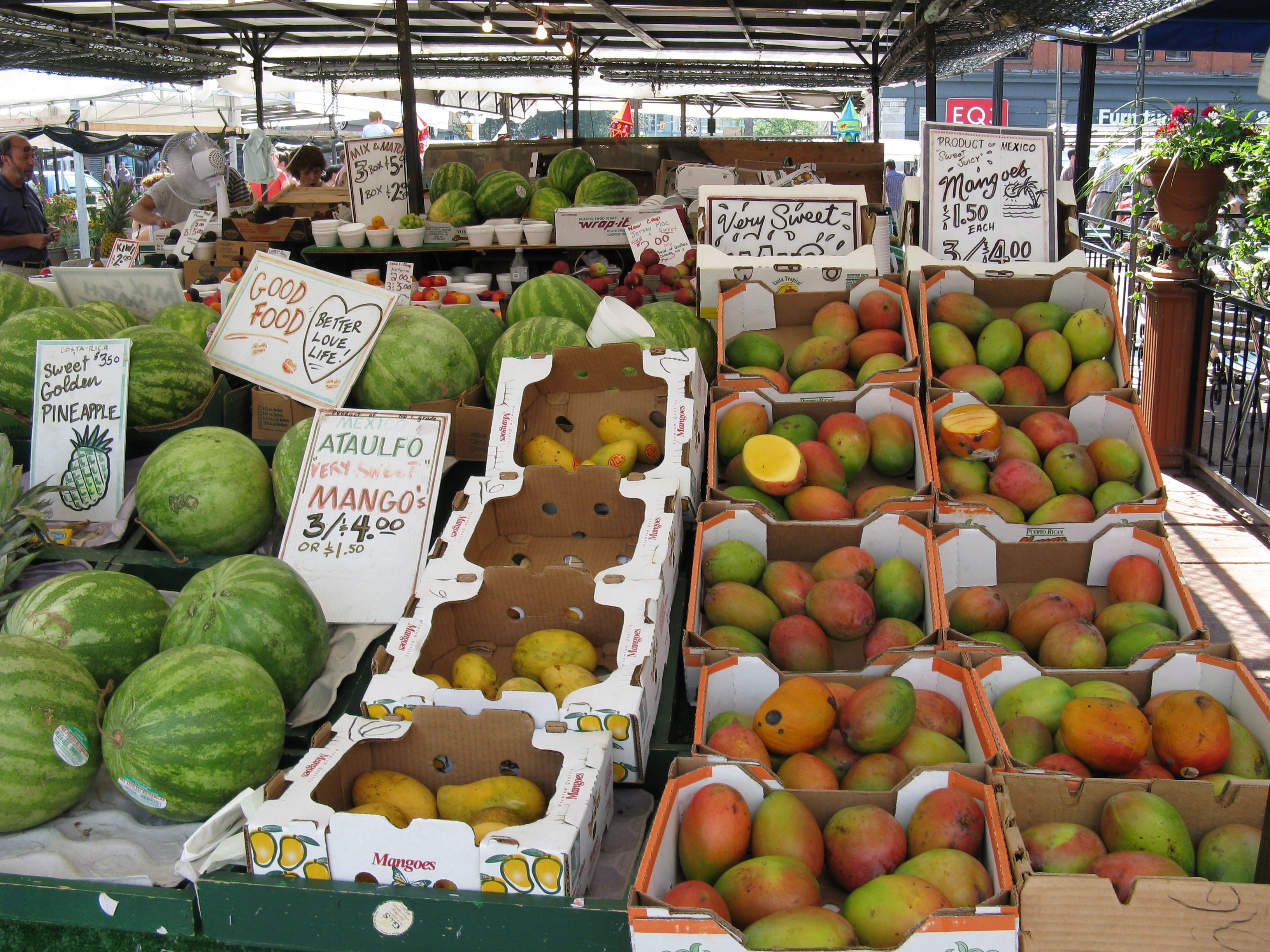 Fruit stand at Byward Market in Ottawa, Canada.